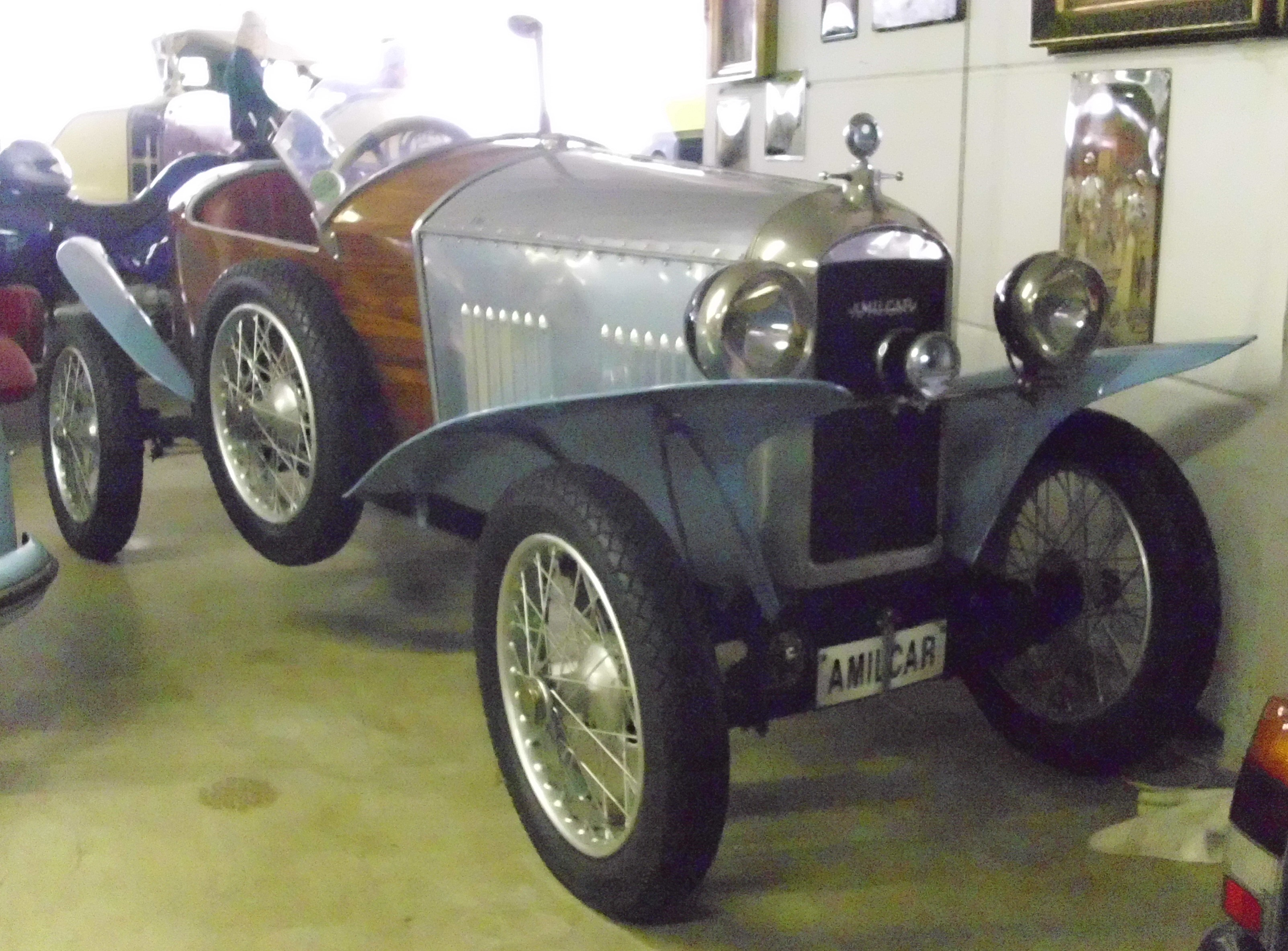 Amilcar Type C 4 Roadster 1924